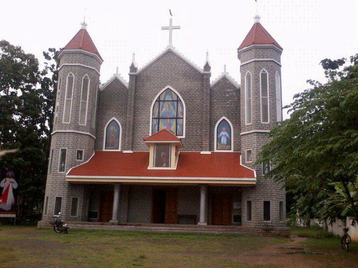 ST MARYS CHURCH CHERUKOLE